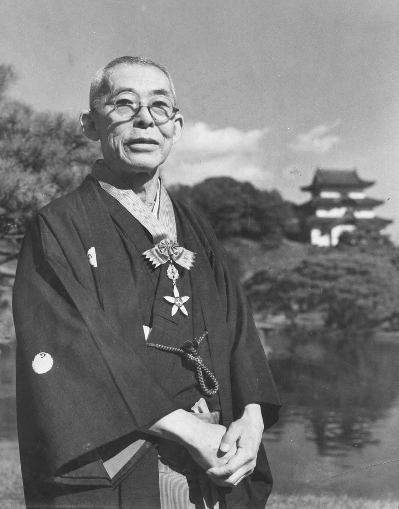 Kichiemon Nakamura I (1886–1954), with the Grand Order of Culture